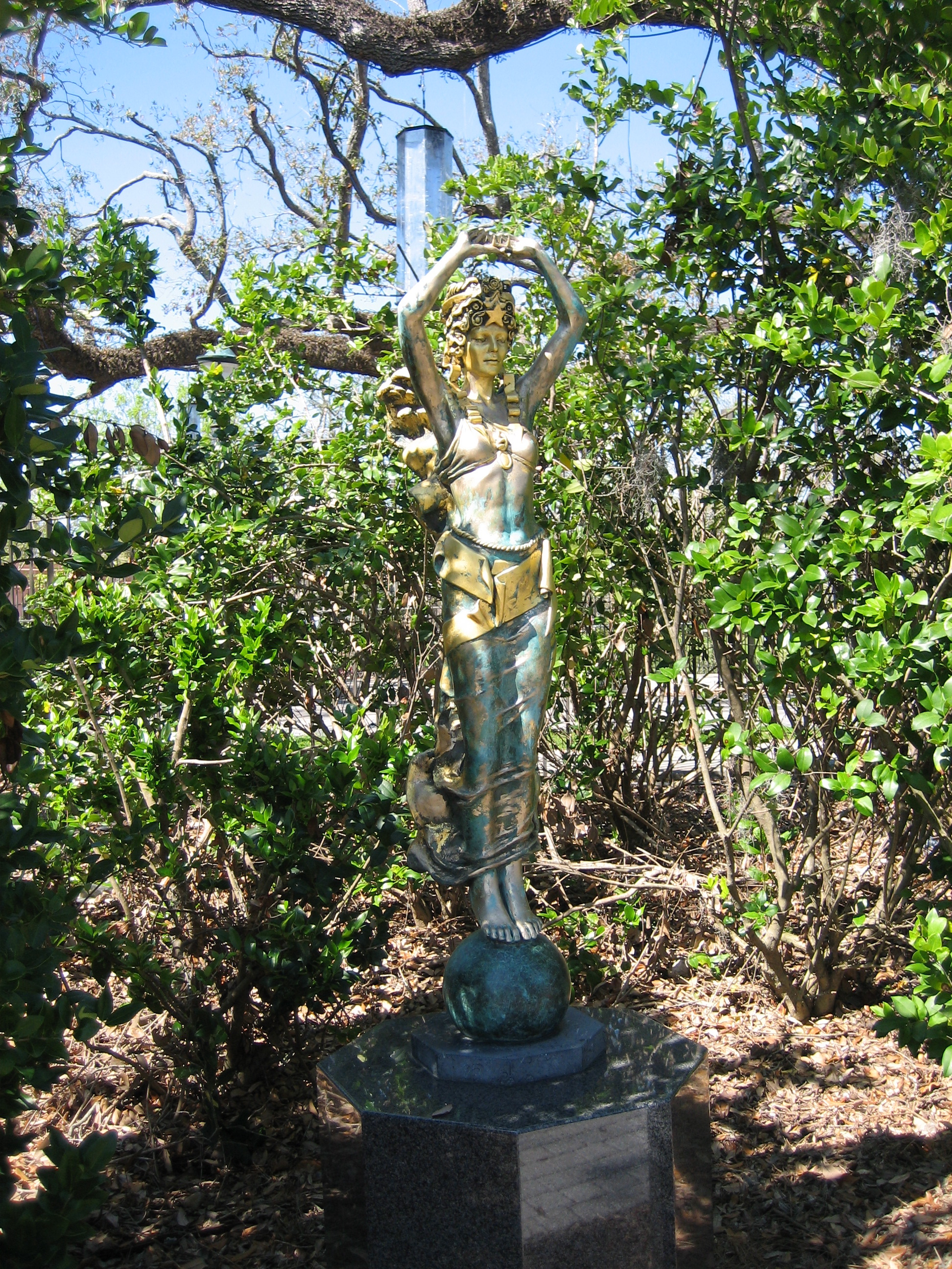 New Orleans Museum of Art sculpture garden in City Park